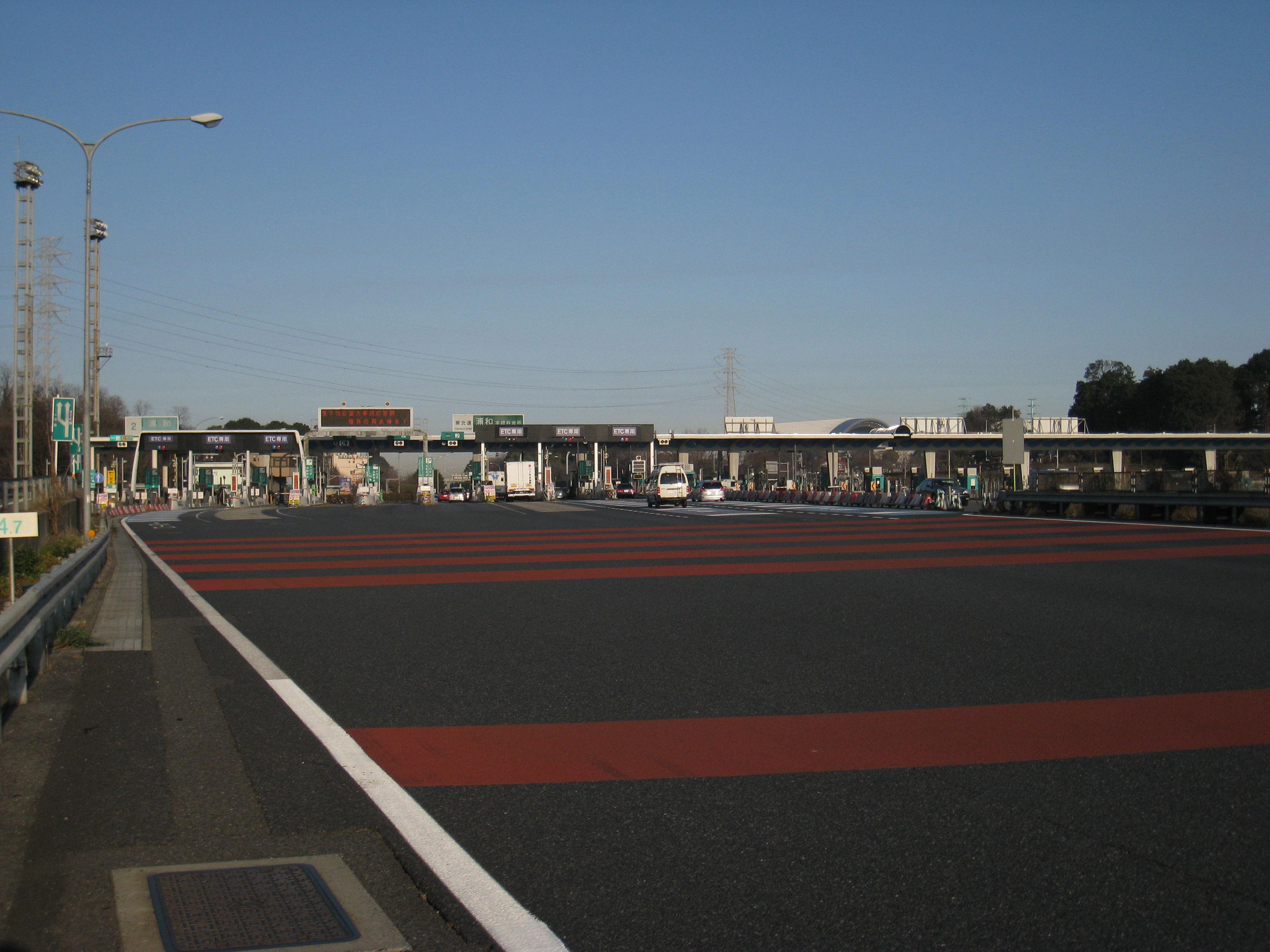 Urawa Interchange